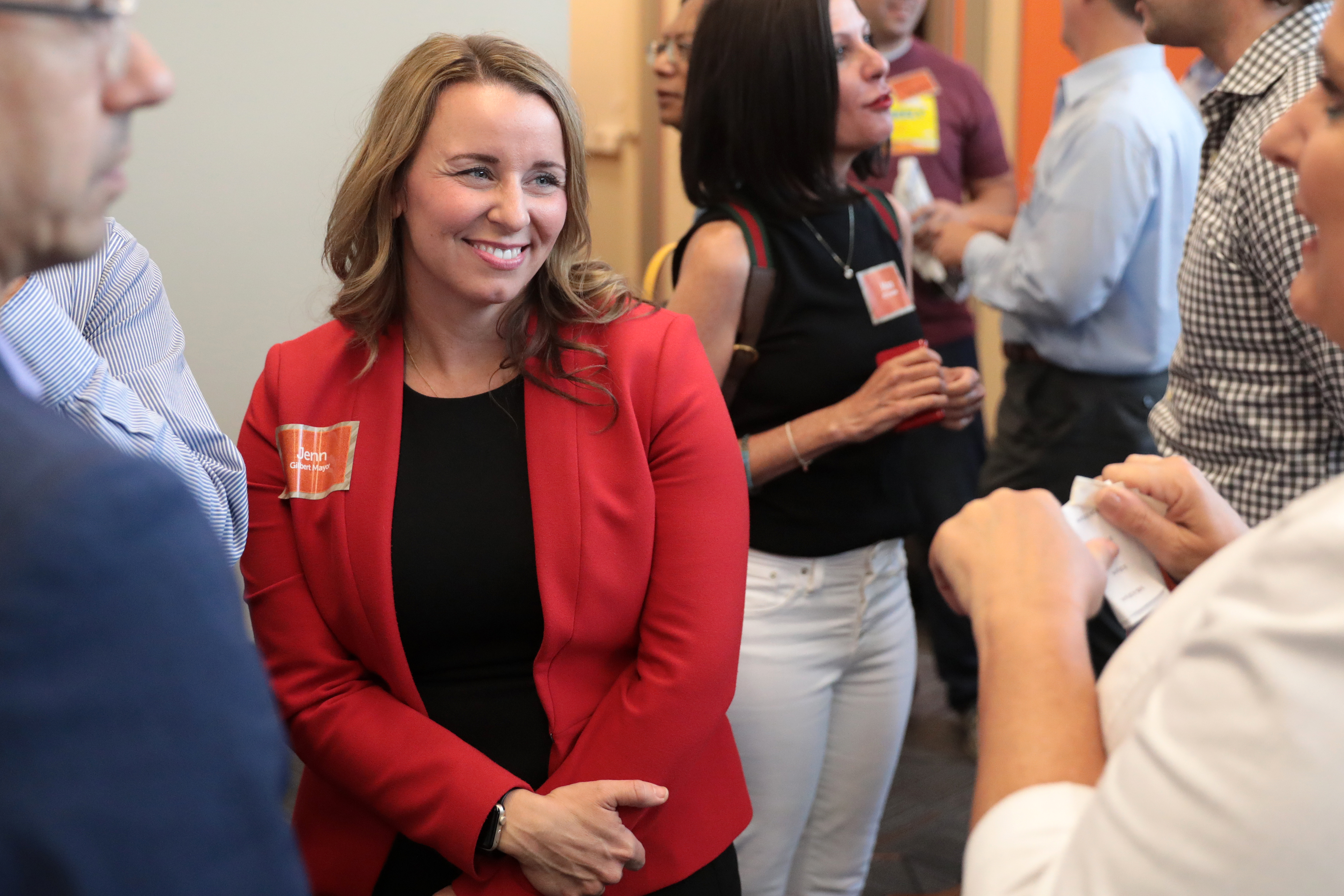 Mayor Jenn Daniels of Gilbert, Arizona speaking with attendees at a ribbon cutting ceremony at the Offer Pad office building in Chandler, Arizona.